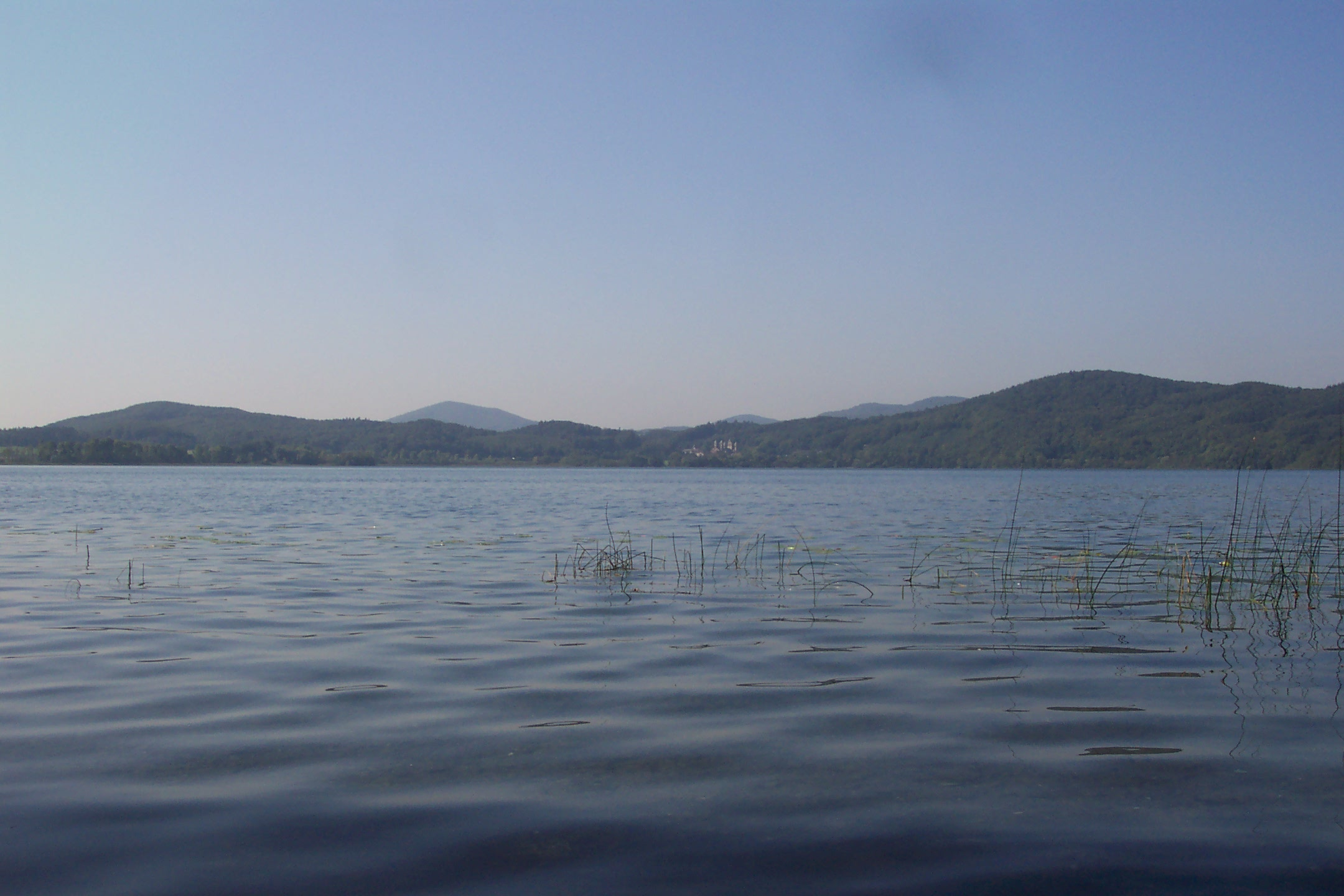 Photo taken by Steffen Hillebrand at the Laacher See, Maria Laach, D